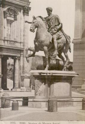 see title